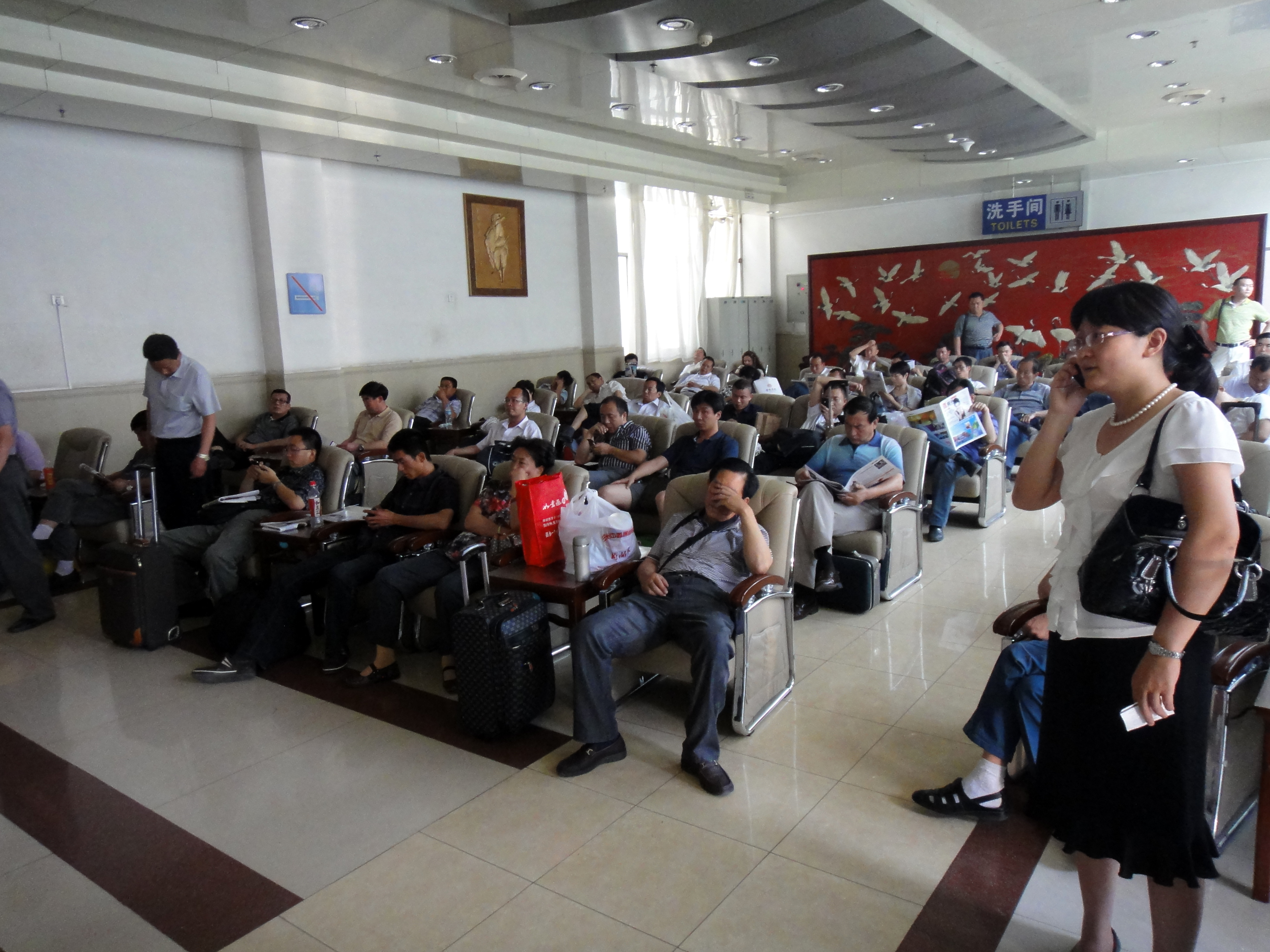 Soft Seat Waiting Area for first class paying passengers